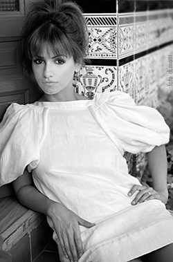 Portrait of Monica Cruz, photographed by Matti Hillig. The photo was taken in Madrid on July 25, 2007. Monica Cruz is a flamenco dancer, actress and model. She is the sister of Penélope Cruz. High-resolution versions of this and more photos are available. Please contact me by mail